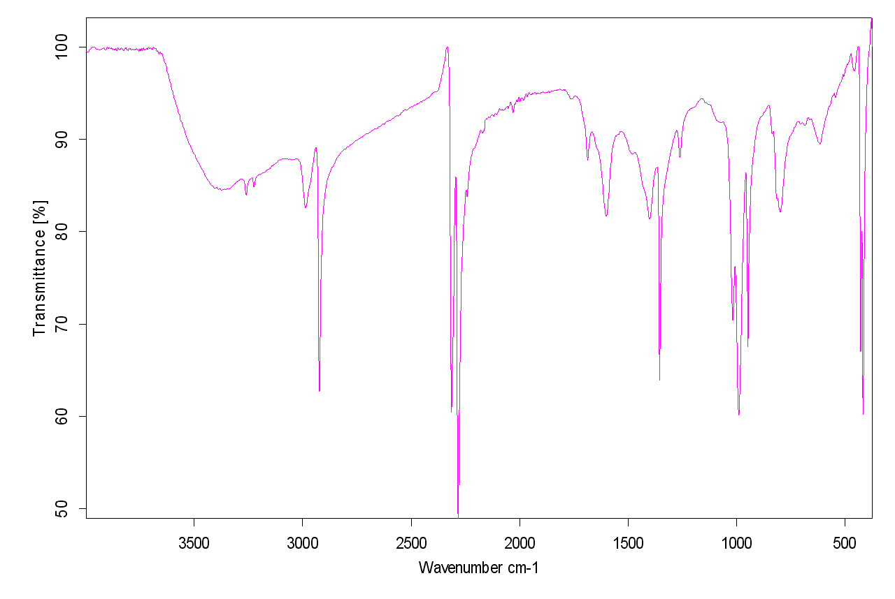 Infrared spectrum Acetonitile in Bis-(acetonitrile)-Molybdenum(IV) chloride. Measured at University of Graz.